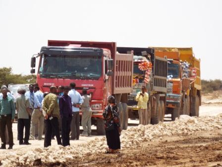 Local dignitaries inspect the construction of the road from Arabsiyo to Allaybaday in the Gebiley District (Woqooyi Galbeed region, Somaliland, Somalia), somewhere during the first half of 2014.